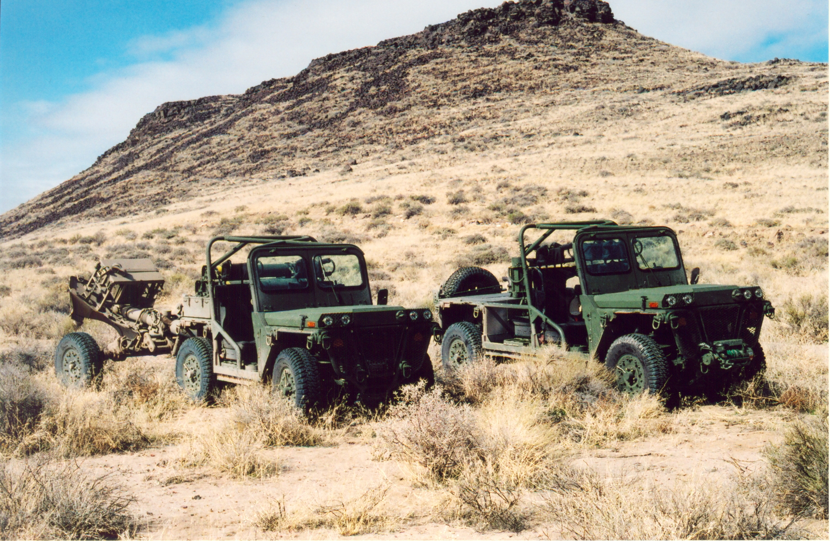 Components of the new USMC air-transportable Expeditionary Fire Support System (EFSS). 120mm Mortar, Type M327 M1161 ITV as tractor, next to M1163 prime mover